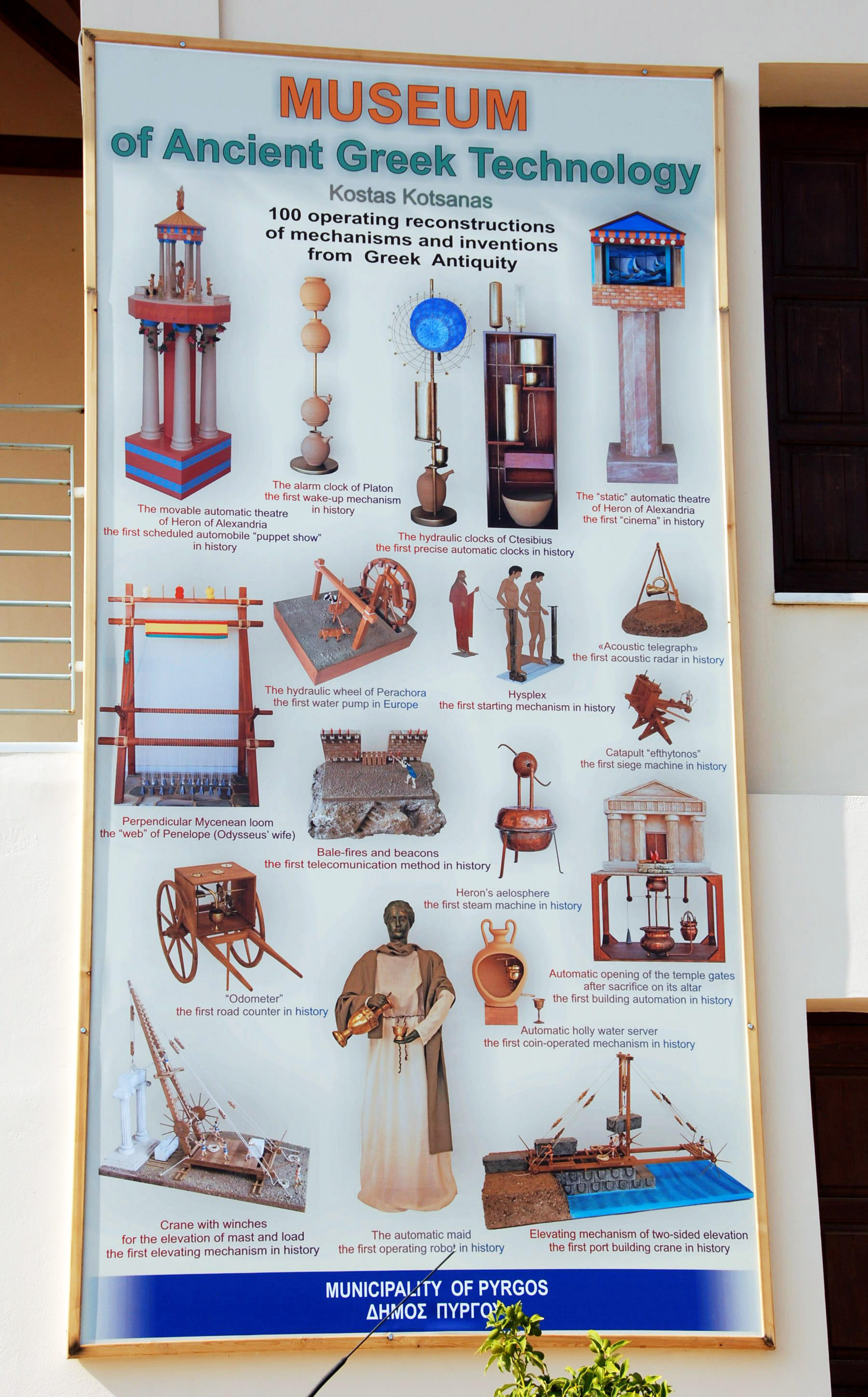 Sign showing the various exhibits which can be seen in the museum.